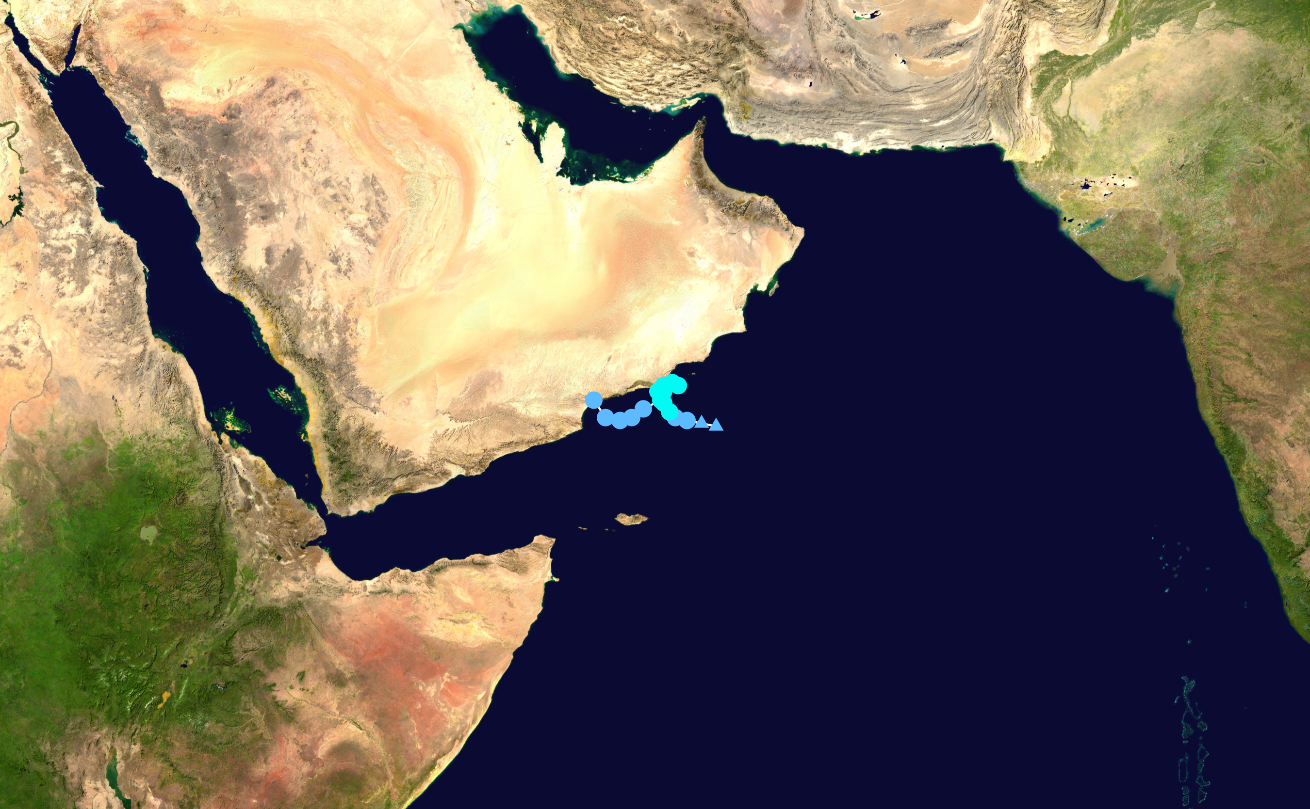 Track map of Cyclonic Storm Keila of the 2011 North Indian Ocean cyclone season. The points show the location of the storm at 6-hour intervals. The colour represents the storm's maximum sustained wind speeds as classified in the Saffir–Simpson scale (see below), and the shape of the data points represent the nature of the storm, according to the legend below. Saffir–Simpson scale Tropical depression≤38 mph≤62 km/h Category 3111–129 mph178–208 km/h Tropical storm39–73 mph63–118 km/h Category 4130–156 mph209–251 km/h Category 174–95 mph119–153 km/h Category 5≥157 mph≥252 km/h Category 296–110 mph154–177 km/h Unknown Storm type Tropical cyclone Subtropical cyclone Extratropical cyclone / Remnant low / Tropical disturbance / Monsoon depression